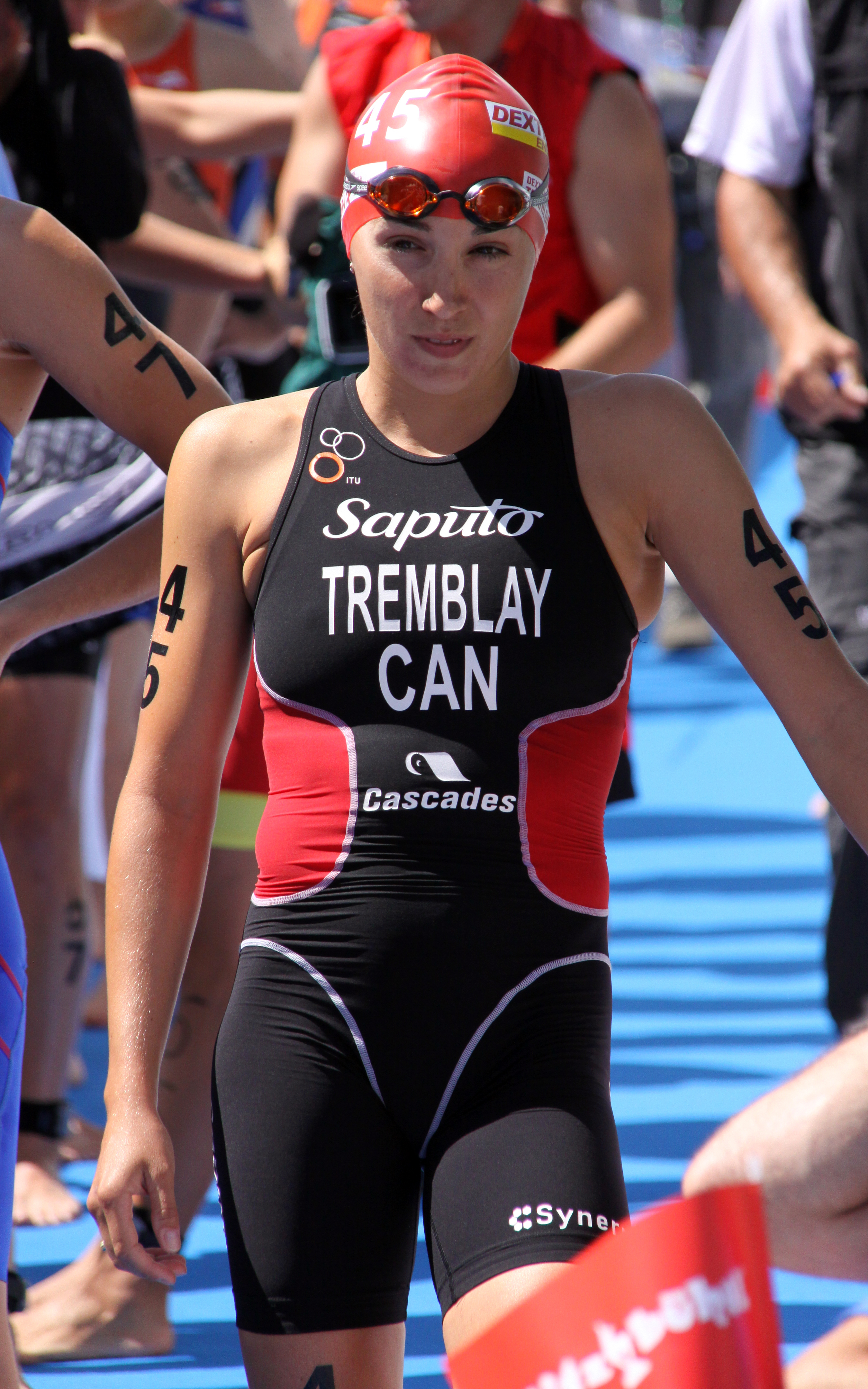 Kathy Tremblay at the World Championship Series Triathlon in Kitzbuhel (Kitzbühel), 2010.